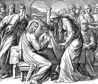 Jesus is anointed by Mary Magdalene. XIX century engraving